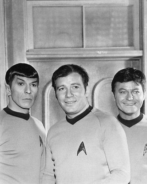 Photo of Leonard Nimoy (Spock), William Shatner (Kirk) and DeForest Kelley (McCoy) from the television program Star Trek.